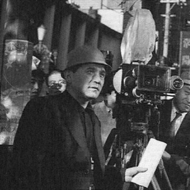 Director Oda